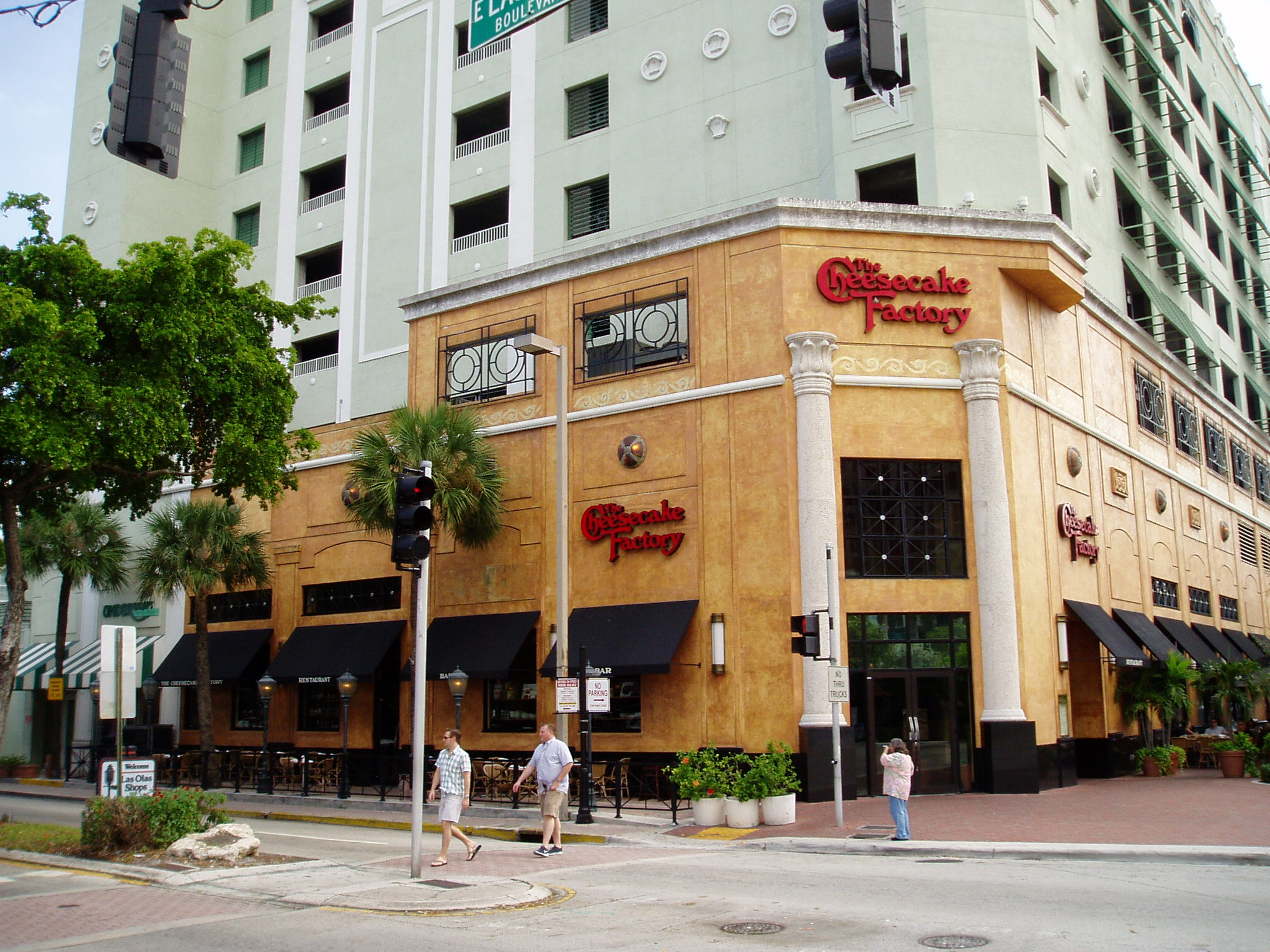 The Cheesecake Factory, an upscale restaurant in Downtown Fort Lauderdale, Florida.